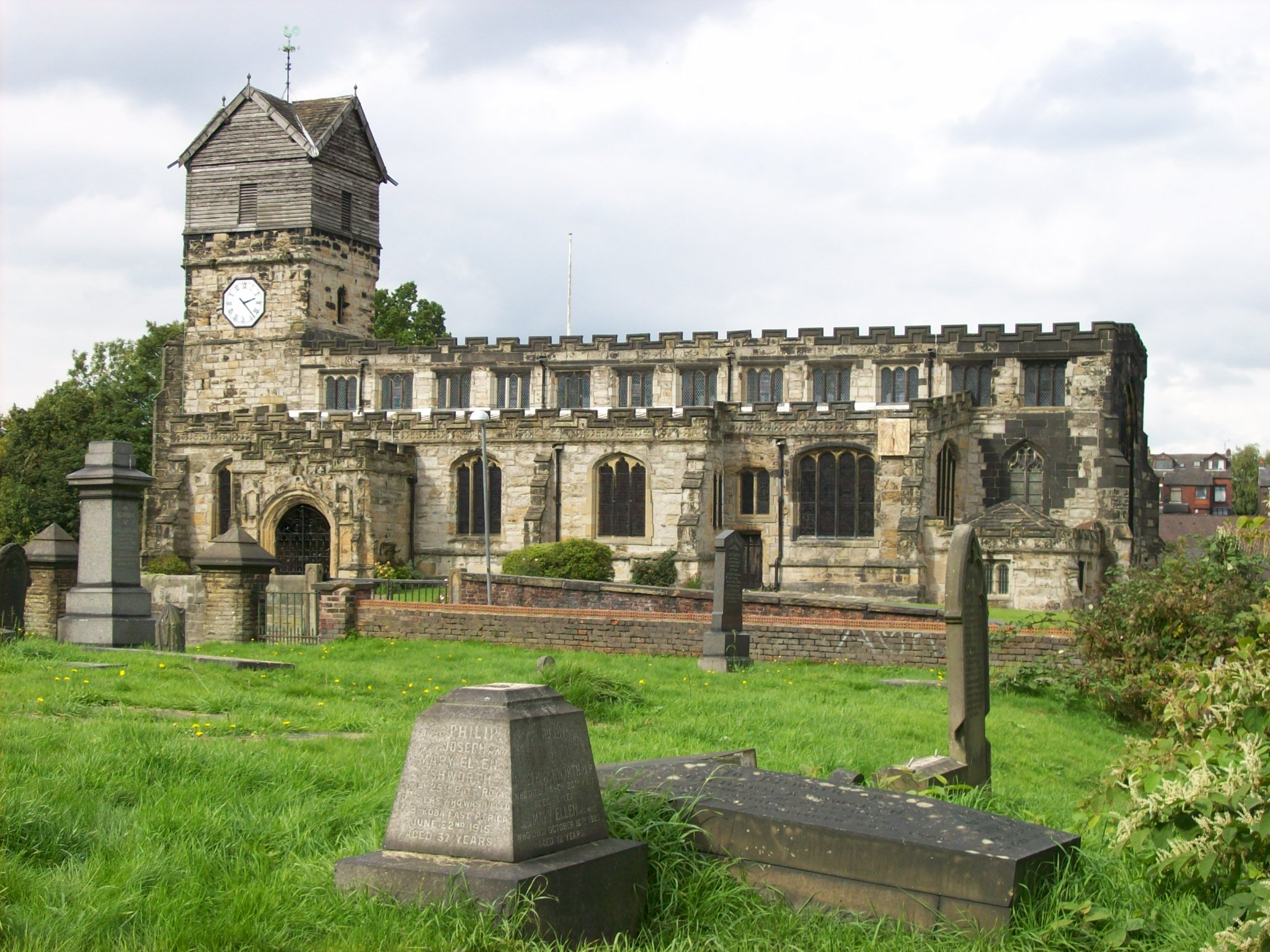 St. Leonard, Middleton, Greater Manchester